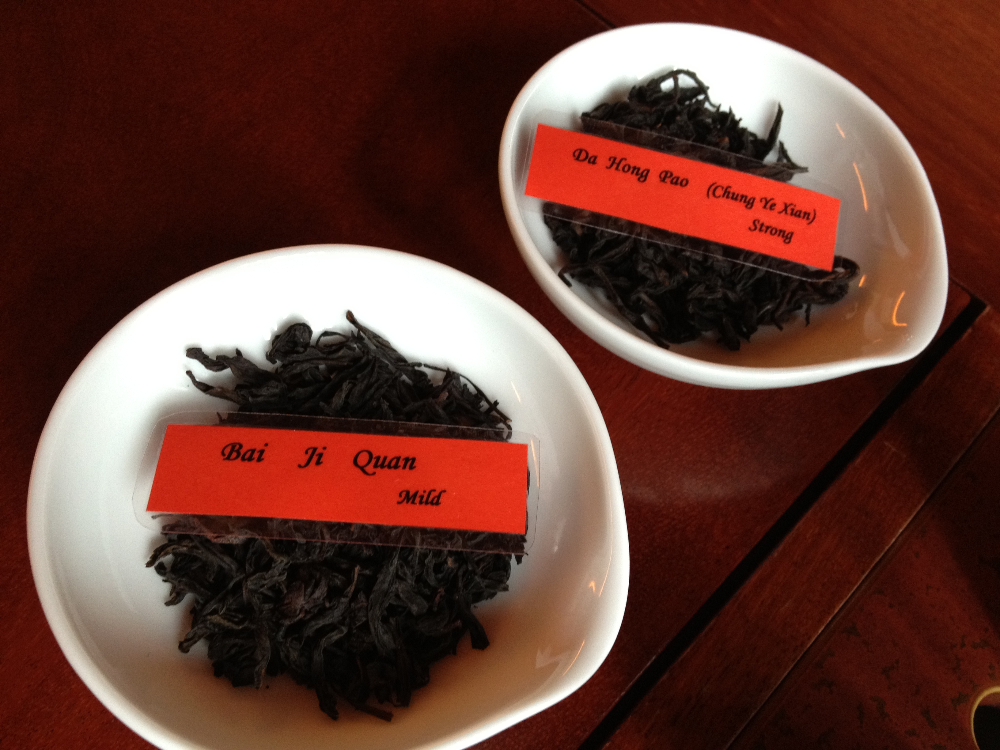 Two types of Chinese tea